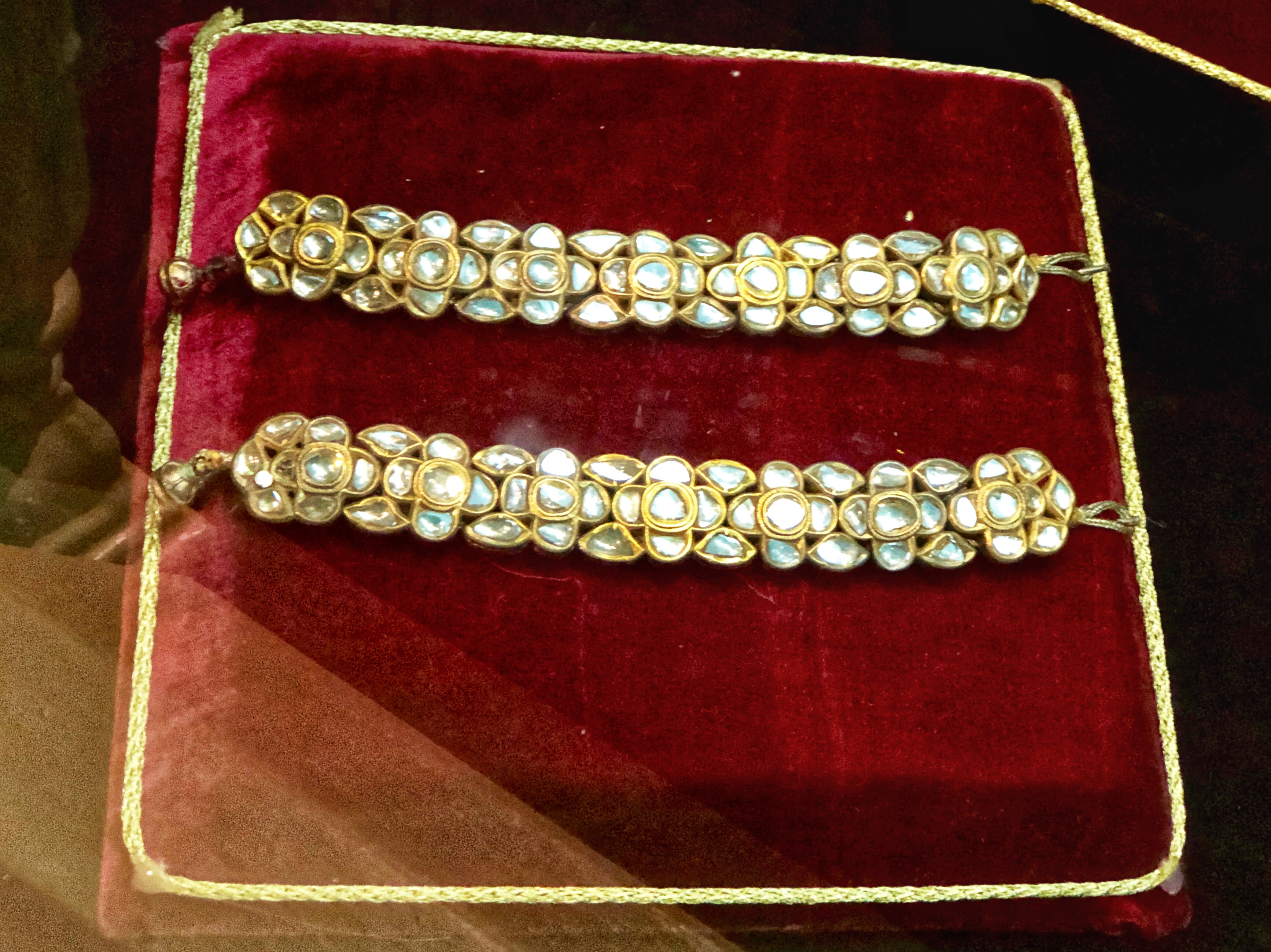 Rock cut diamonds embedded on a band of gold.